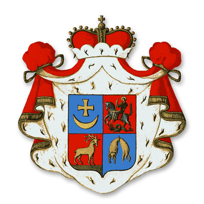 Nicholas Tchkotoua